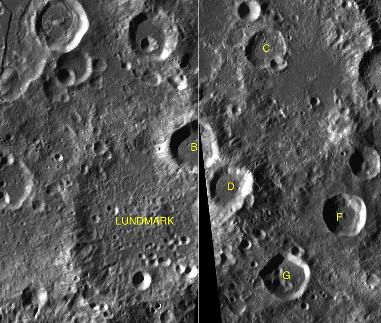 Parts of the charts LAC-118, LAC-119 used for the presentation